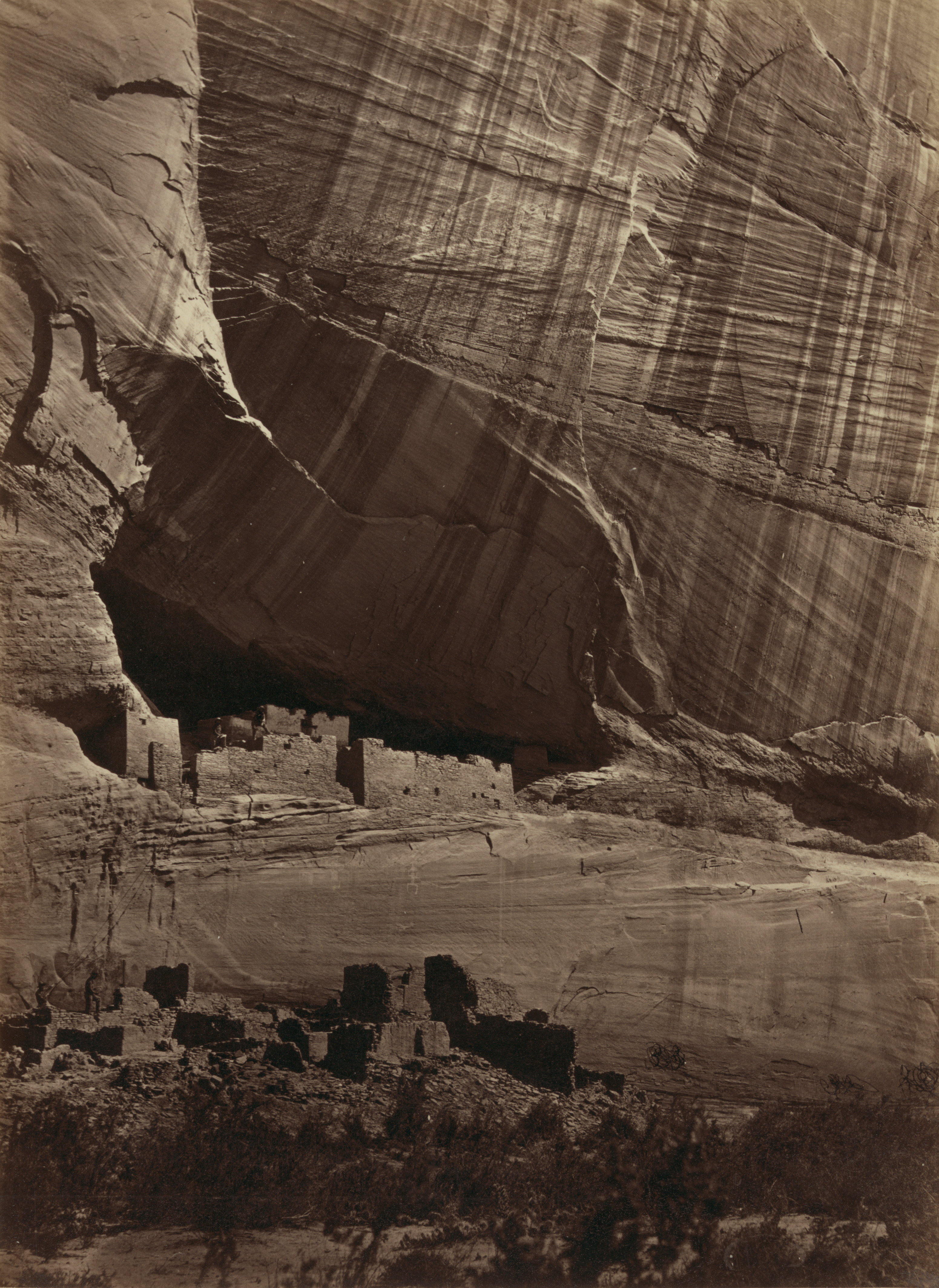 Ruins of an Anasazi pueblo, called the "White House", in Canyon de Chelly, present day Arizona. Original title: Ancient ruins in the Cañon de Chelle, N.M. [New Mexico Territory], in a niche 50 feet above present cañon bed. Part of the series "Geographical explorations and surveys west of the 100th meridian", sponsored by the United States War Department, U.S. Army Corps of Engineers.